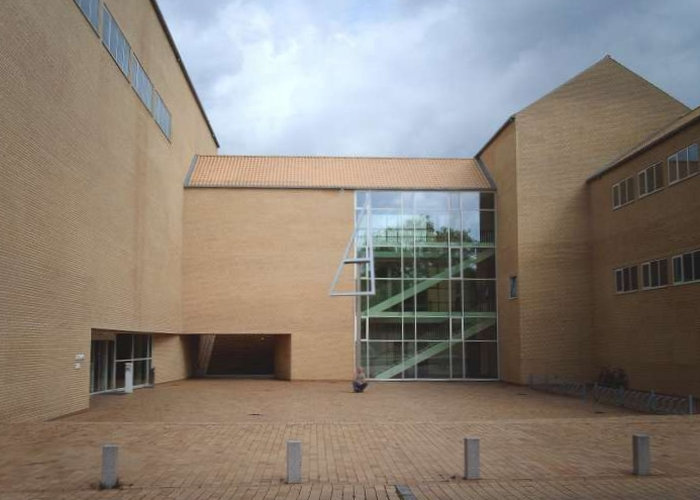 Lakeside auditorium of the university of Aarhus